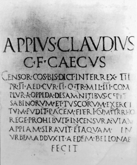 Transcription of the Latin text of a commemorative plaque CIL XI, 1827 of Appius Claudius Caecus, the censor of Rome 312 BC.